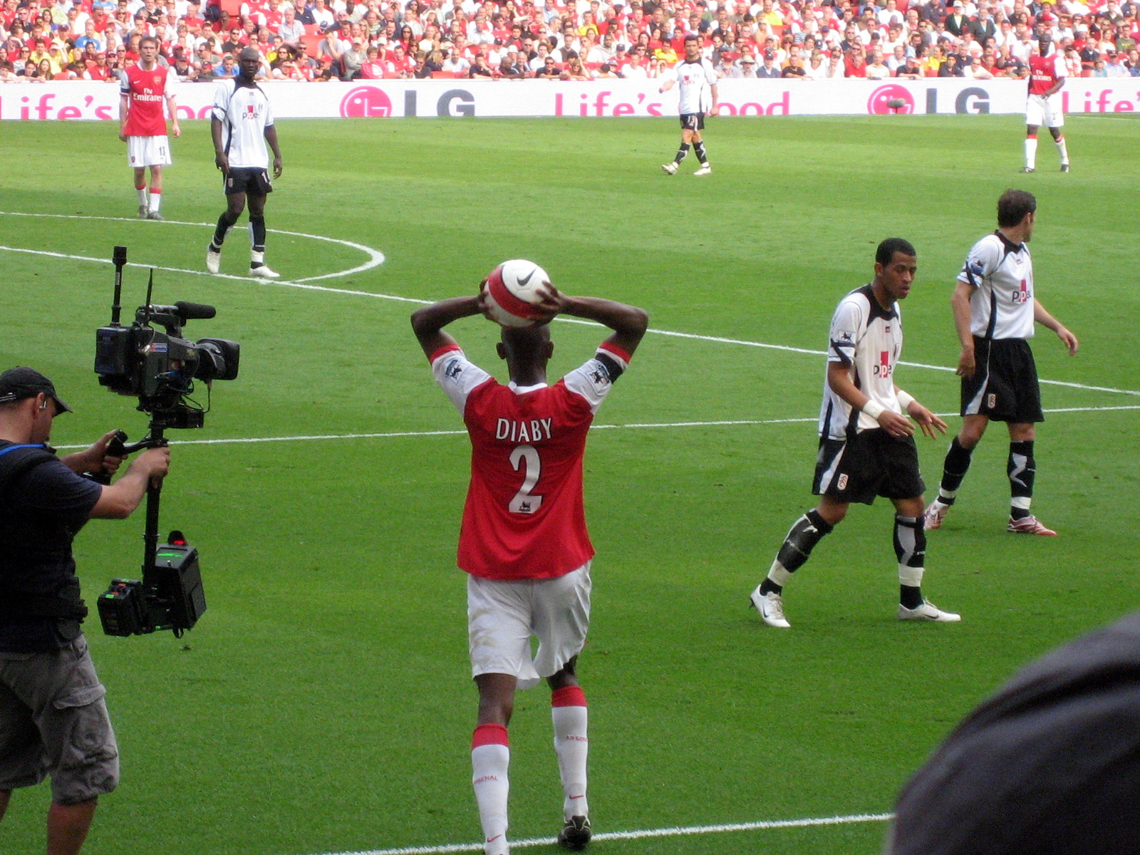 Quiet game compared to last couple, but still a quality player